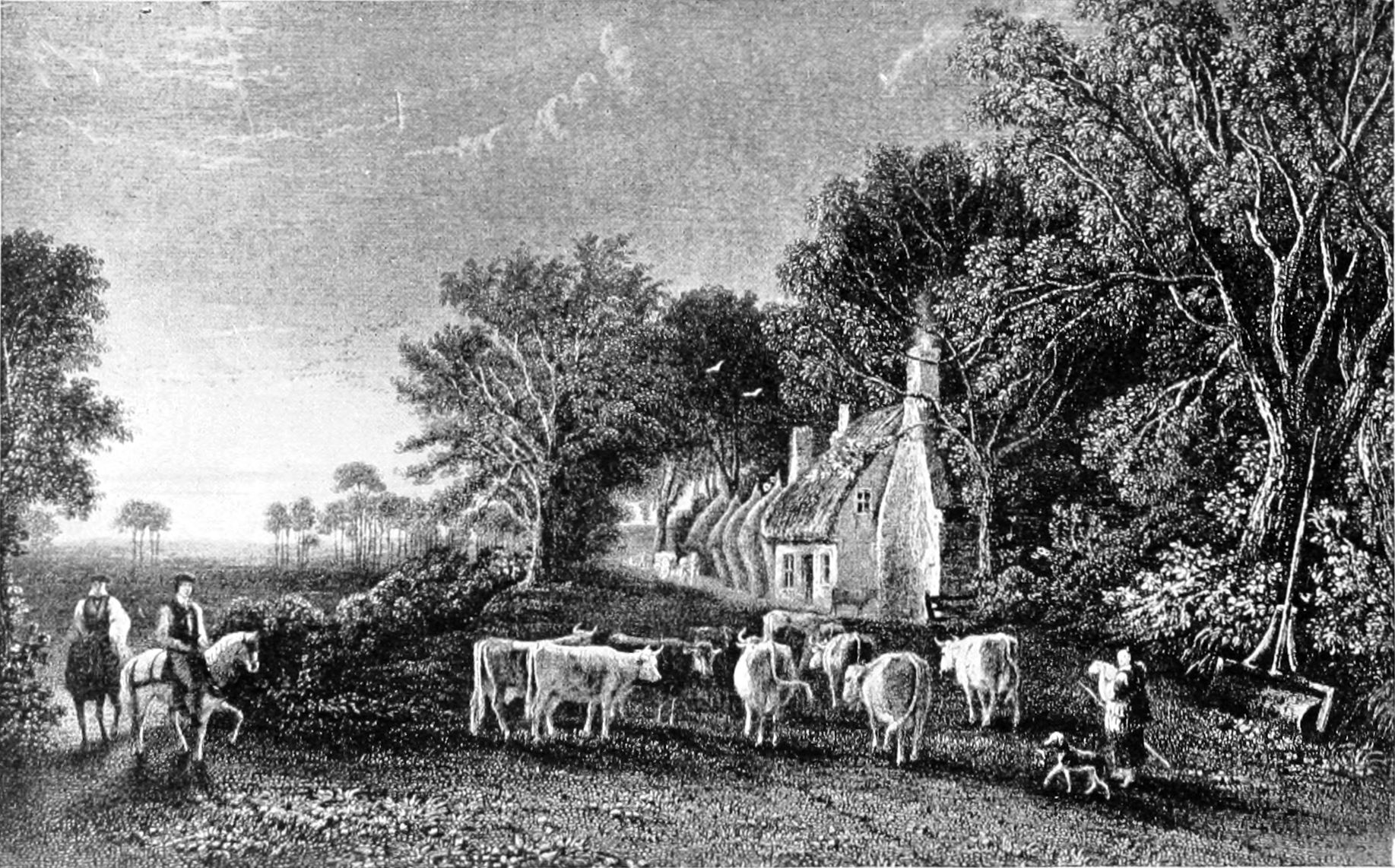 MOSSGIEL